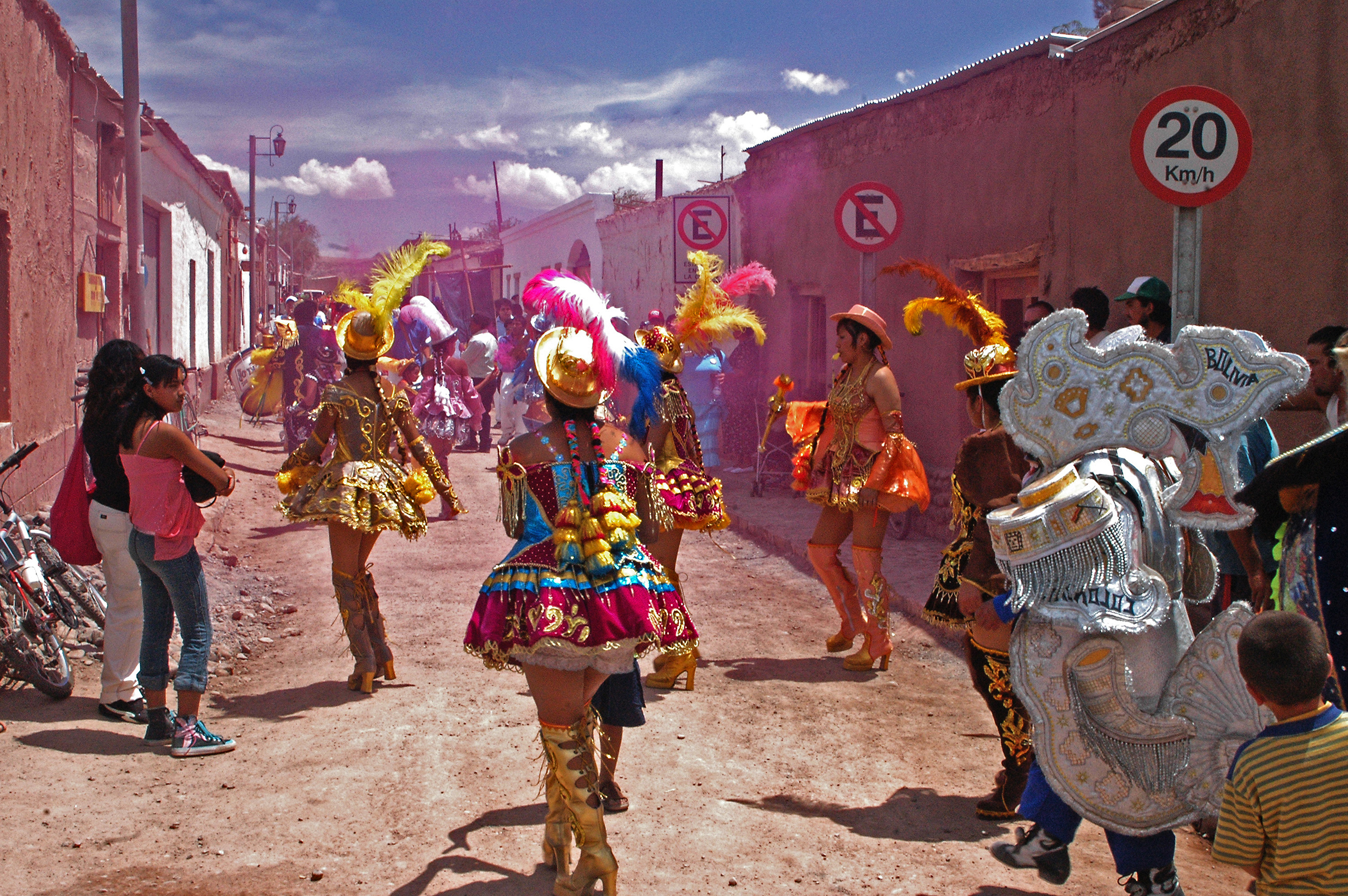 Popular celebration in San Pedro de Atacama Chile